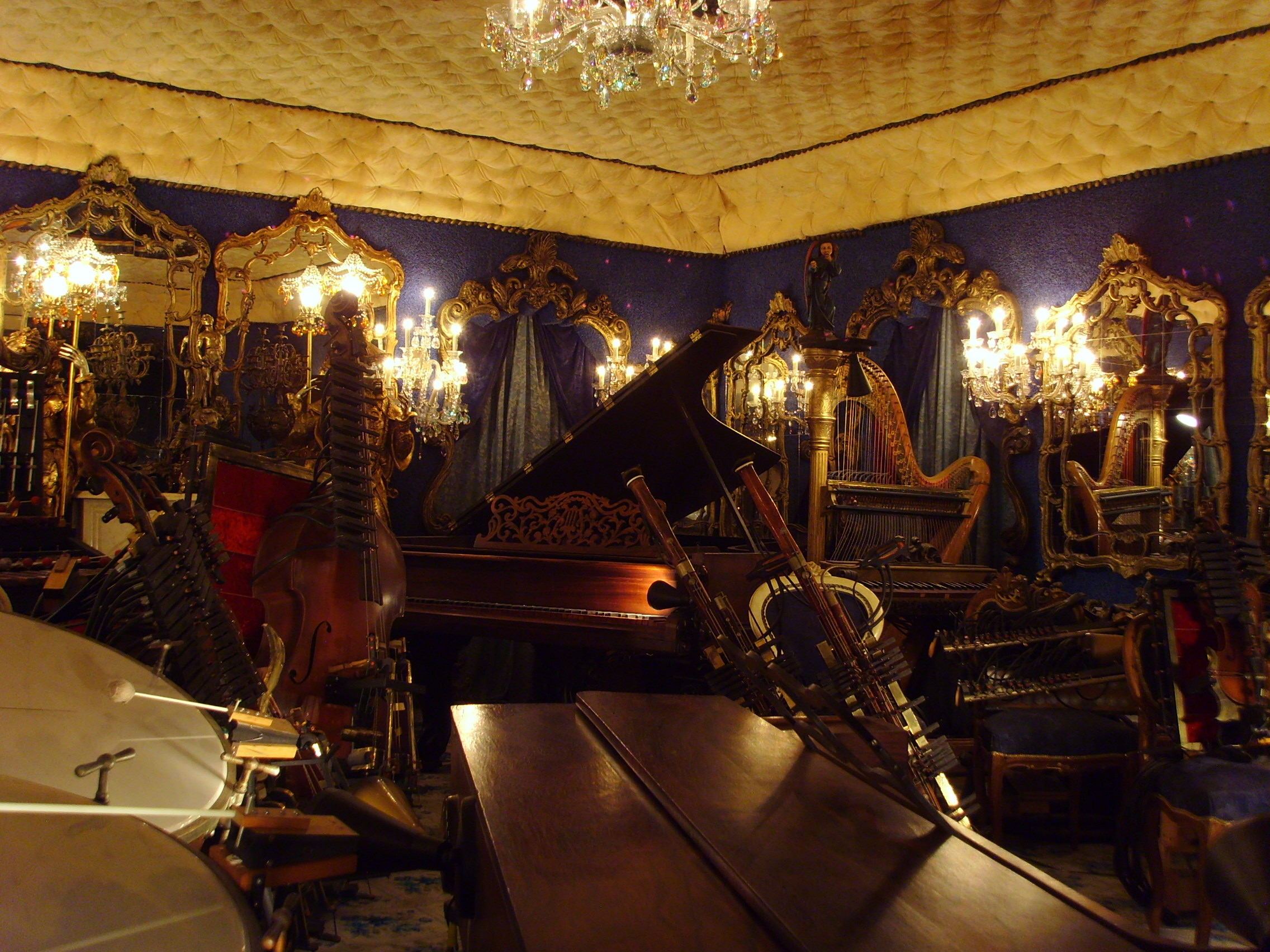 Self-Playing musical instruments at the House on the Rock, Spring Green, Wisconsin. SSL20491